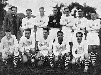 The US national association football team during the 1930 World Cup held at Uruguay. Back row: Robert Millar (coach), James Gallagher, Alexander Wood, James Douglas, George Moorhouse, Raphael Tracey, Andrew Auld. Front row: James Brown, William Gonsalves, Bertram Patenaude, Thomas Florie, Bartholomew McGhee.